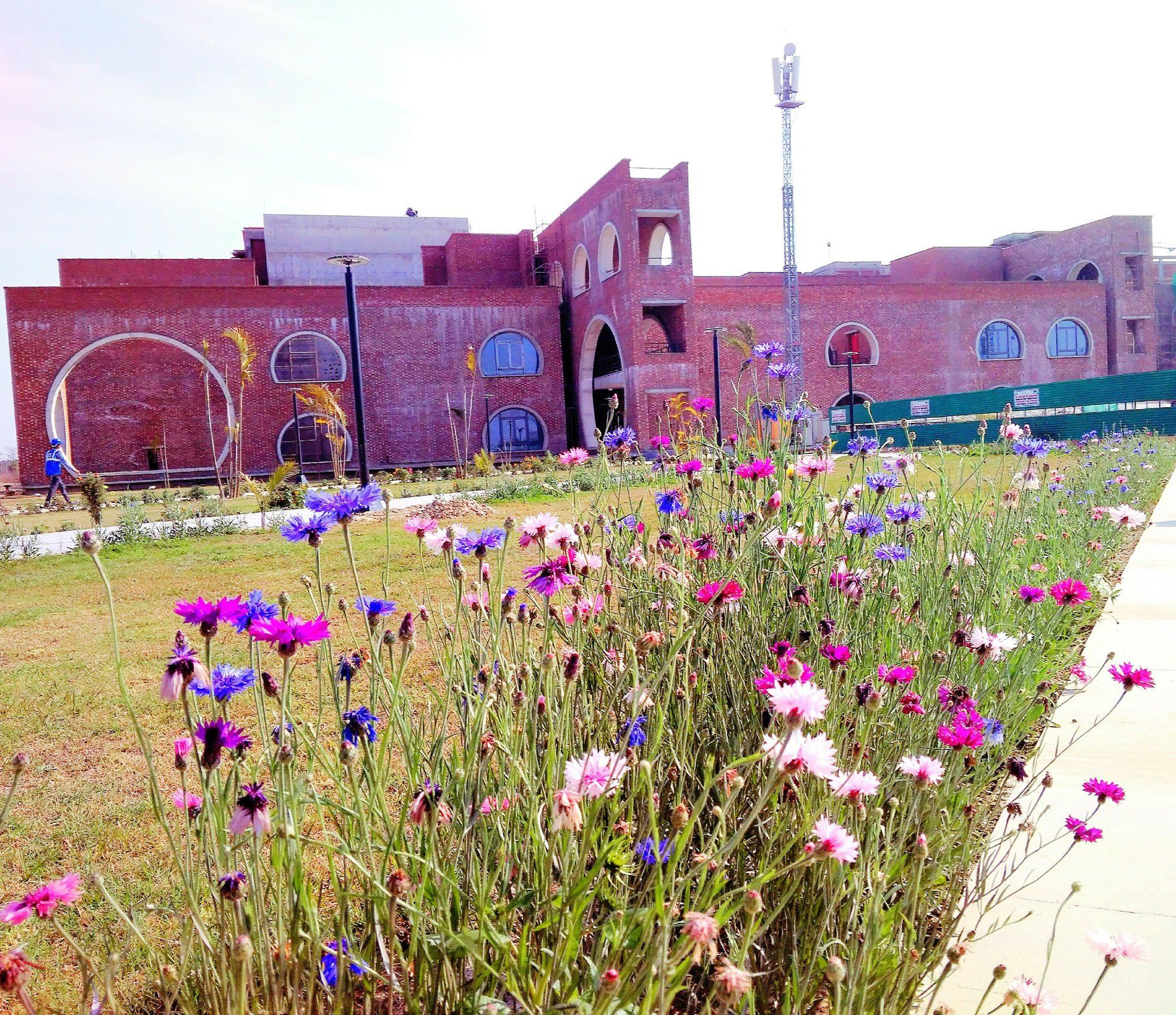 New campus of IIM Kashipur at Kundeswari, Kashipur (Uttarakhand). Side of the Academic Building